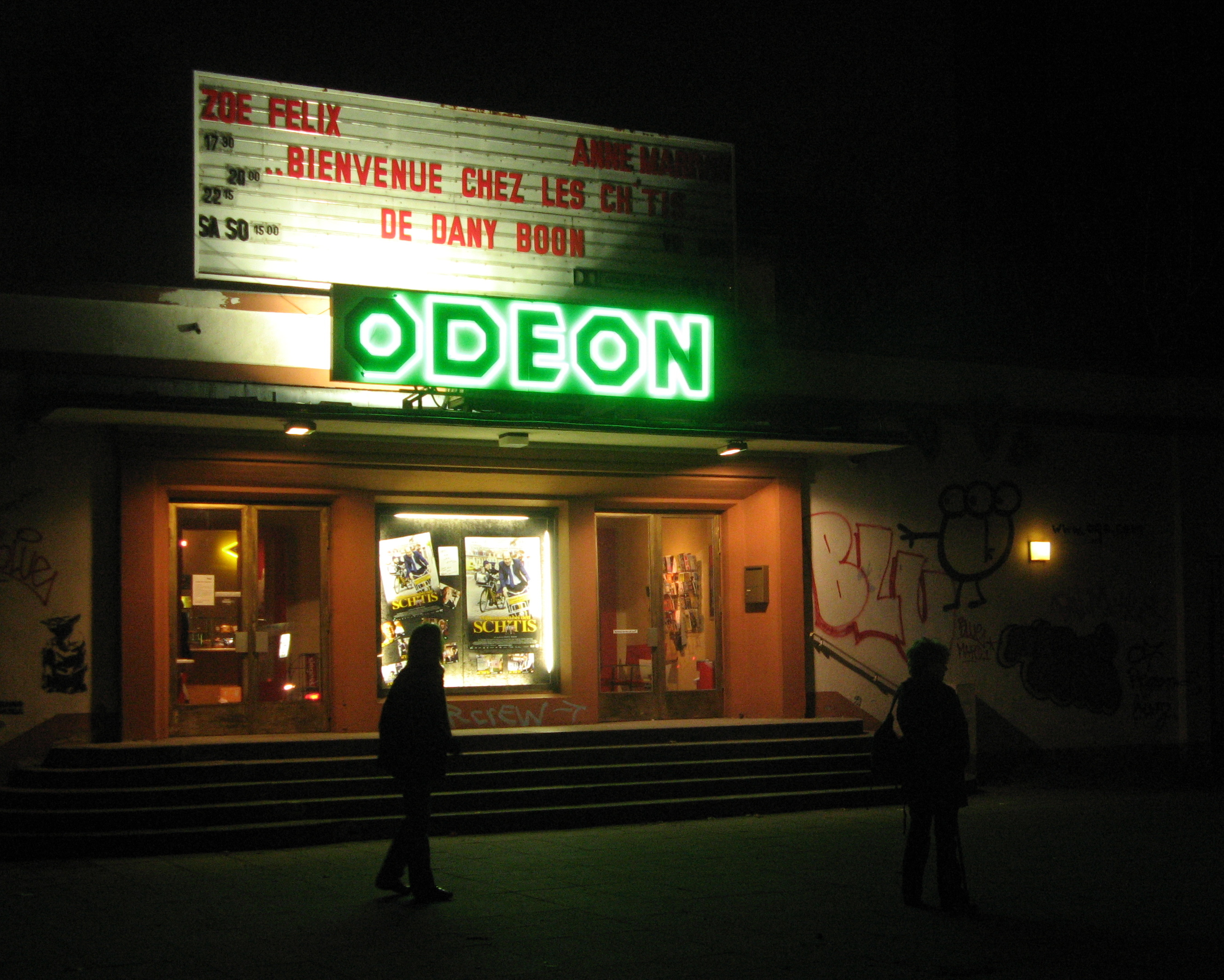 Odeon cinema, Berlin, Germany